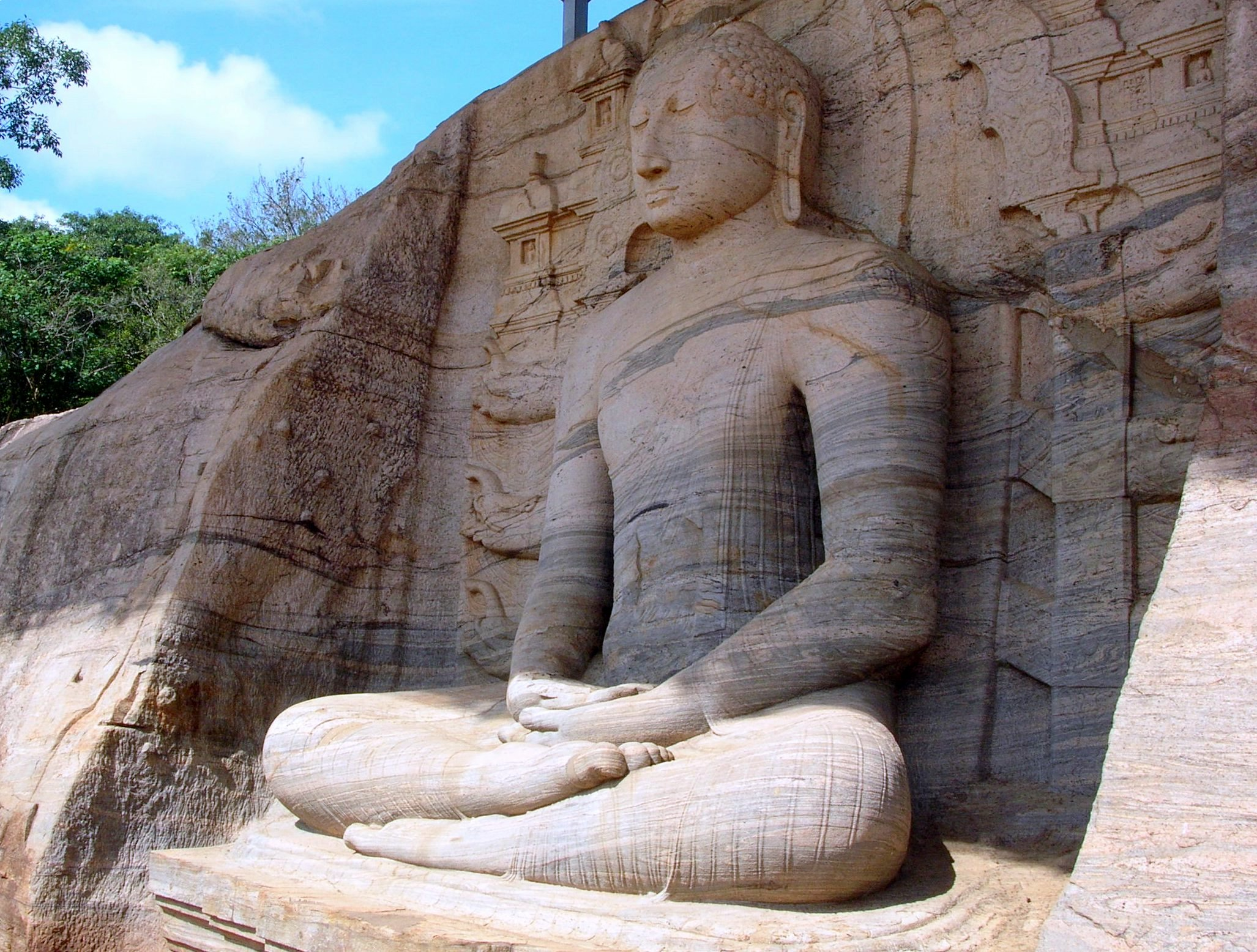 Seated Buddha, Gal Viharaya, Polonnaruwa, Sri Lanka